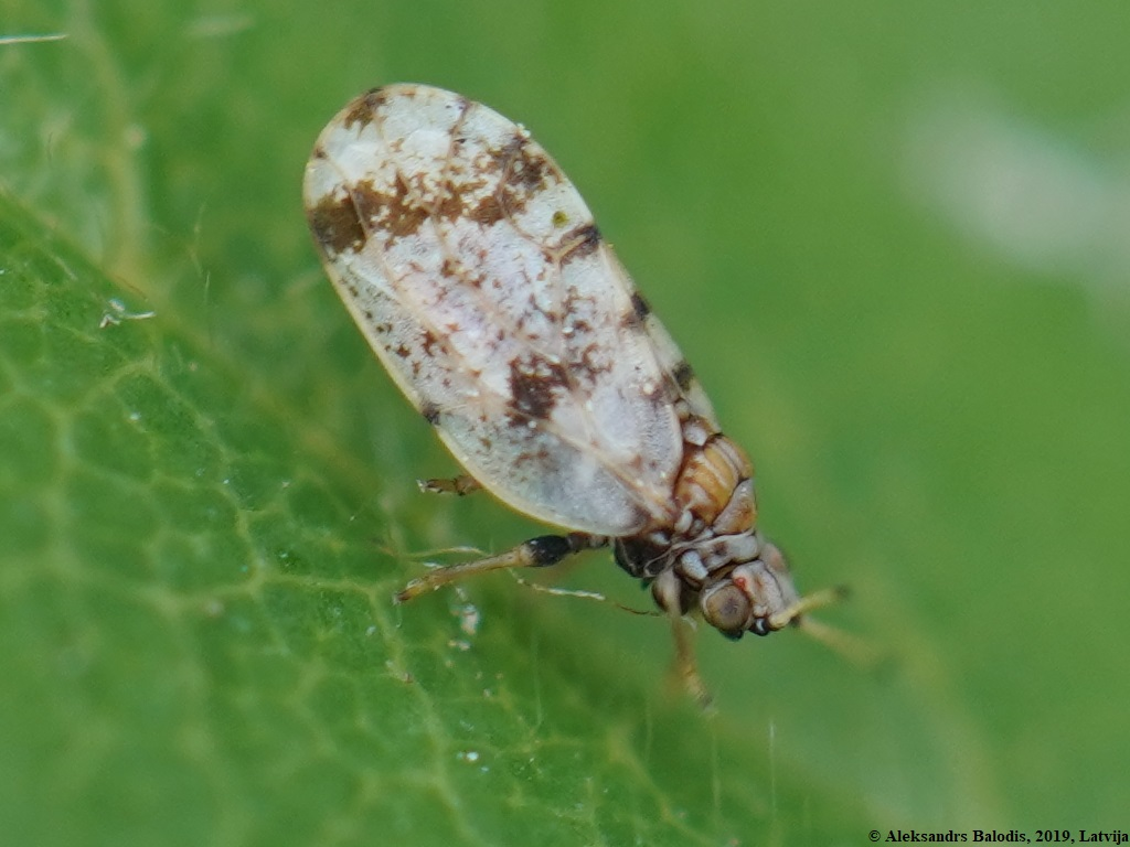 Aphalara ulicis